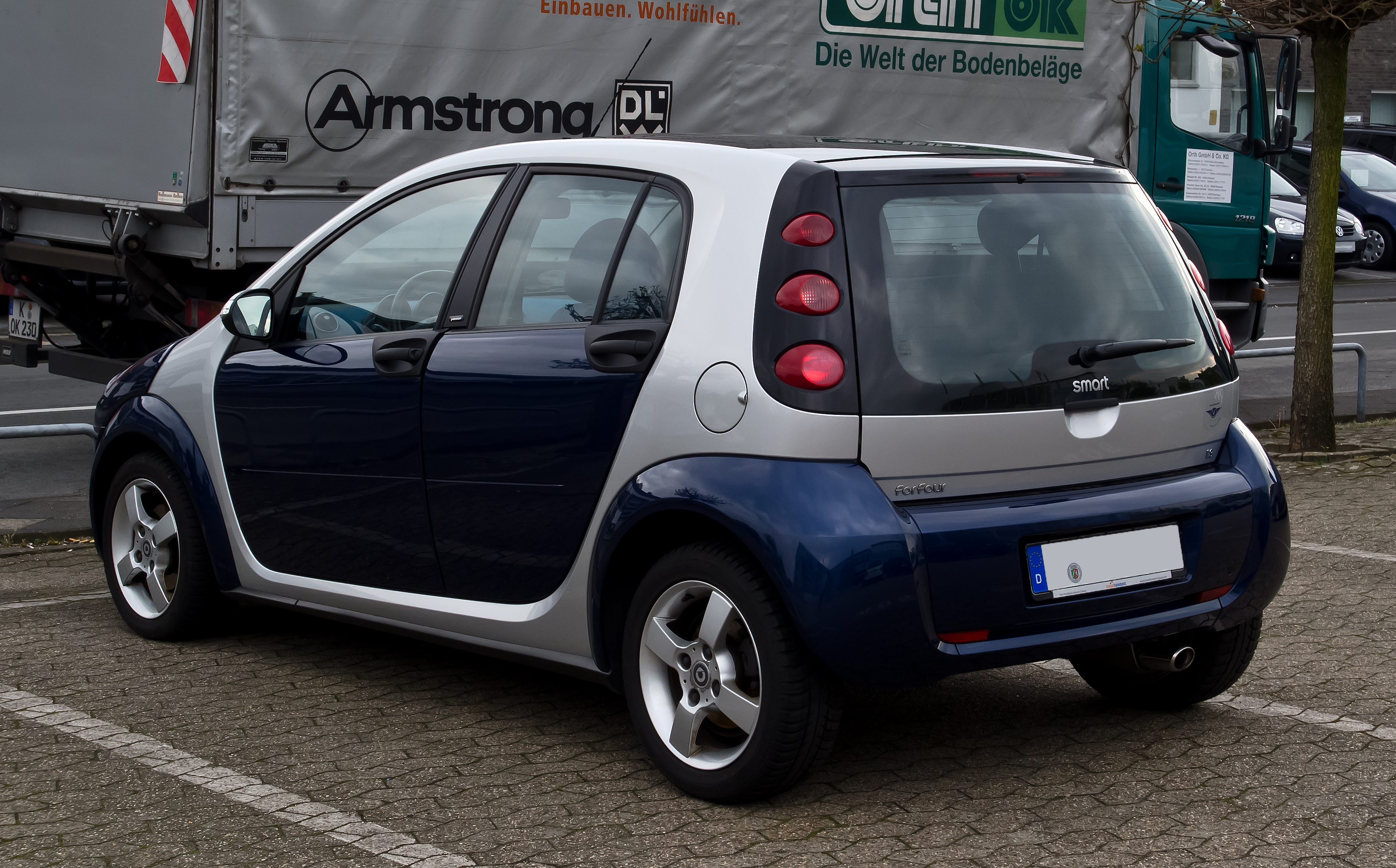 Smart Forfour 1.3 Passion (W 454)